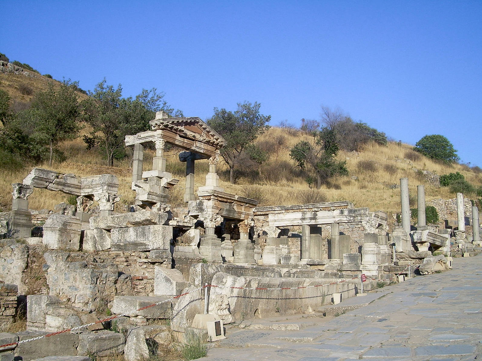 Nymphaeum Traiani, Ephesus